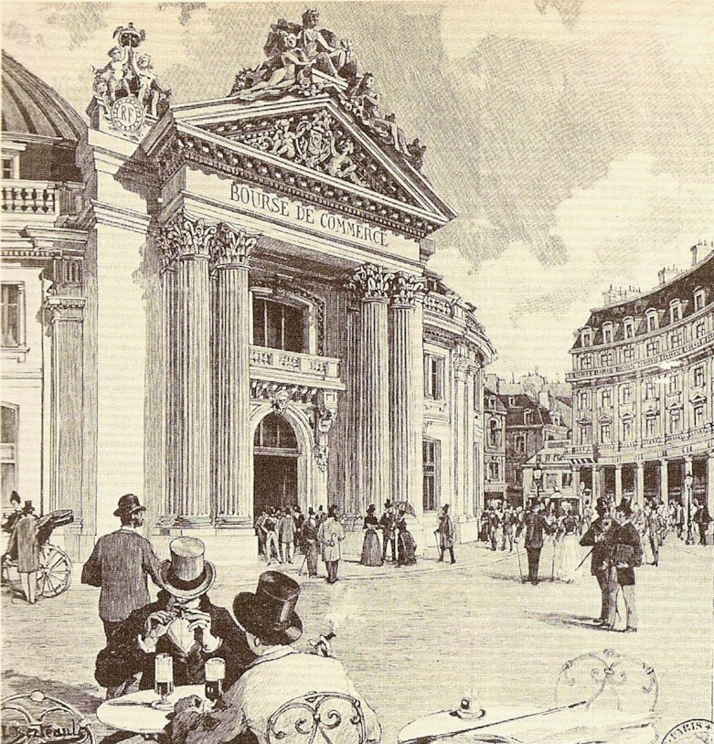 Portico of the Bourse de Commerce (Paris). Sculptures by Onésime-Aristide Croisy